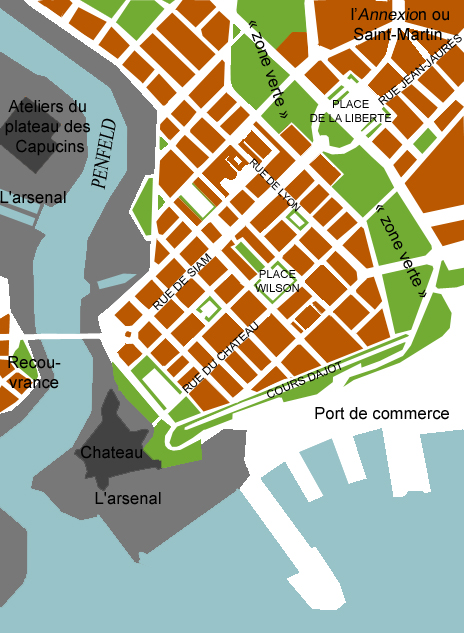 Mathon plan as it was passed in 1948